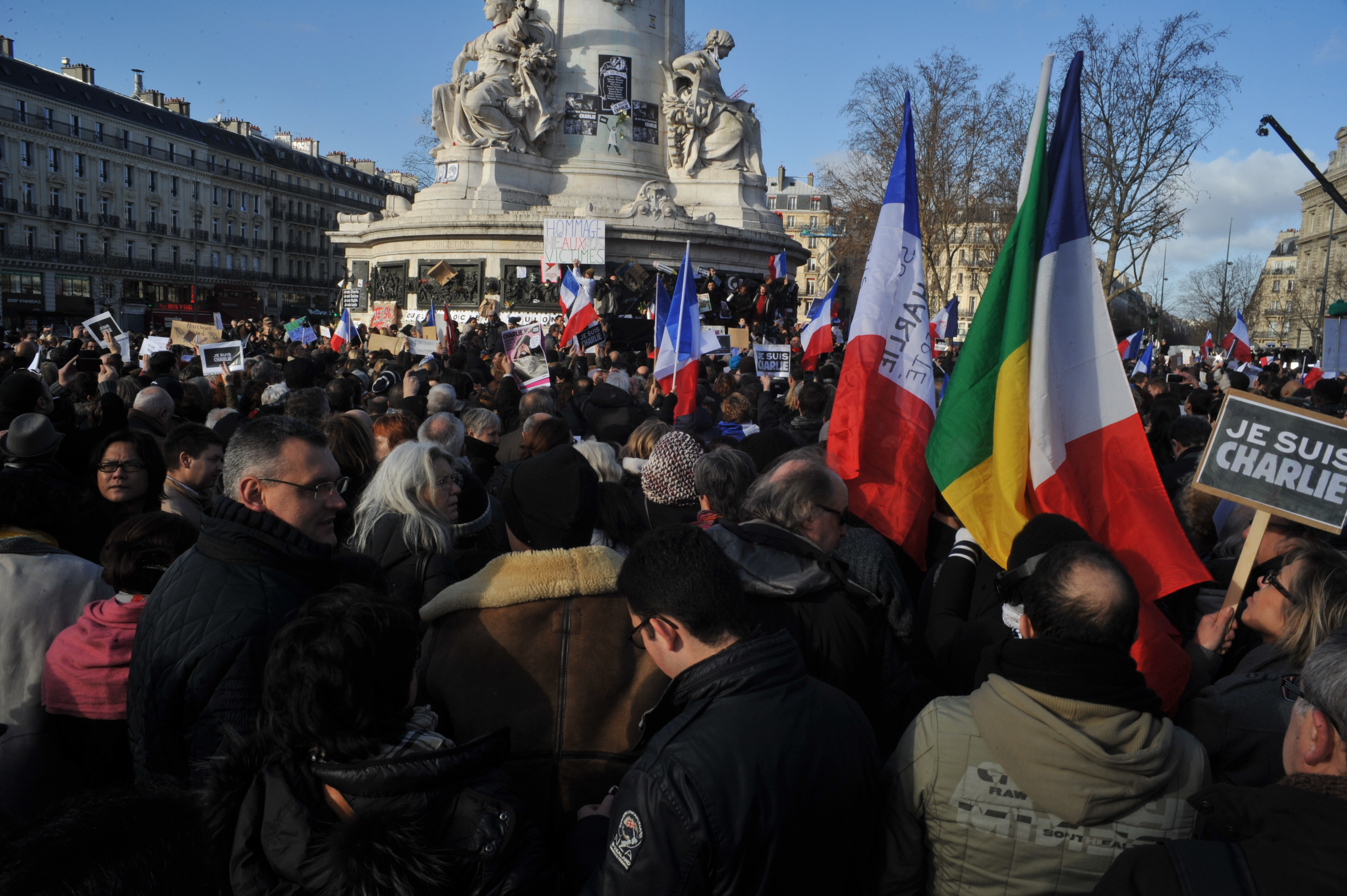 Paris rally in support of the victims of the 2015 Charlie Hebdo shooting, 11 January 2015.